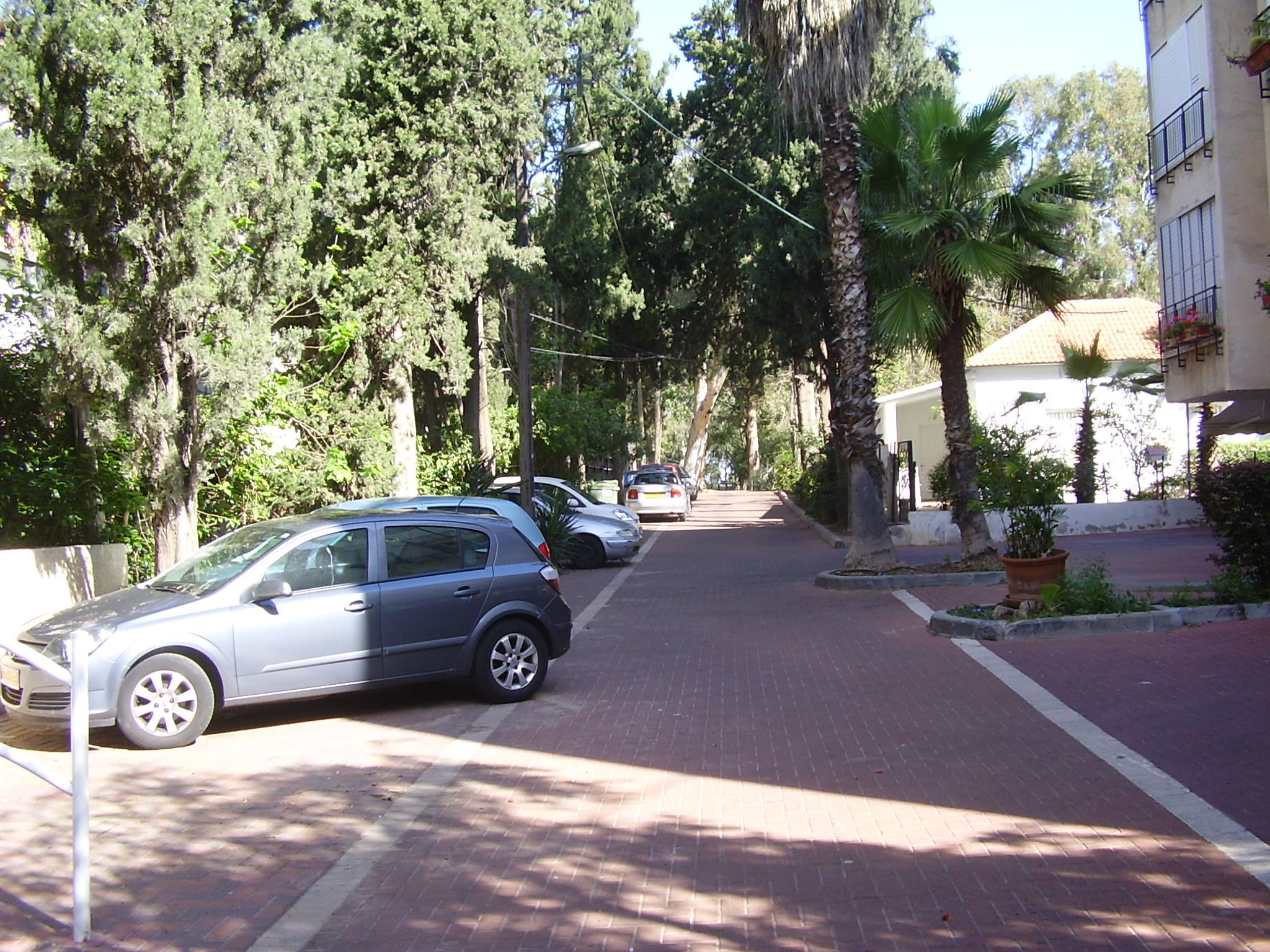 nurse nehama avenue in gan shaul, israel שדרת האחות נחמה בגן שאול